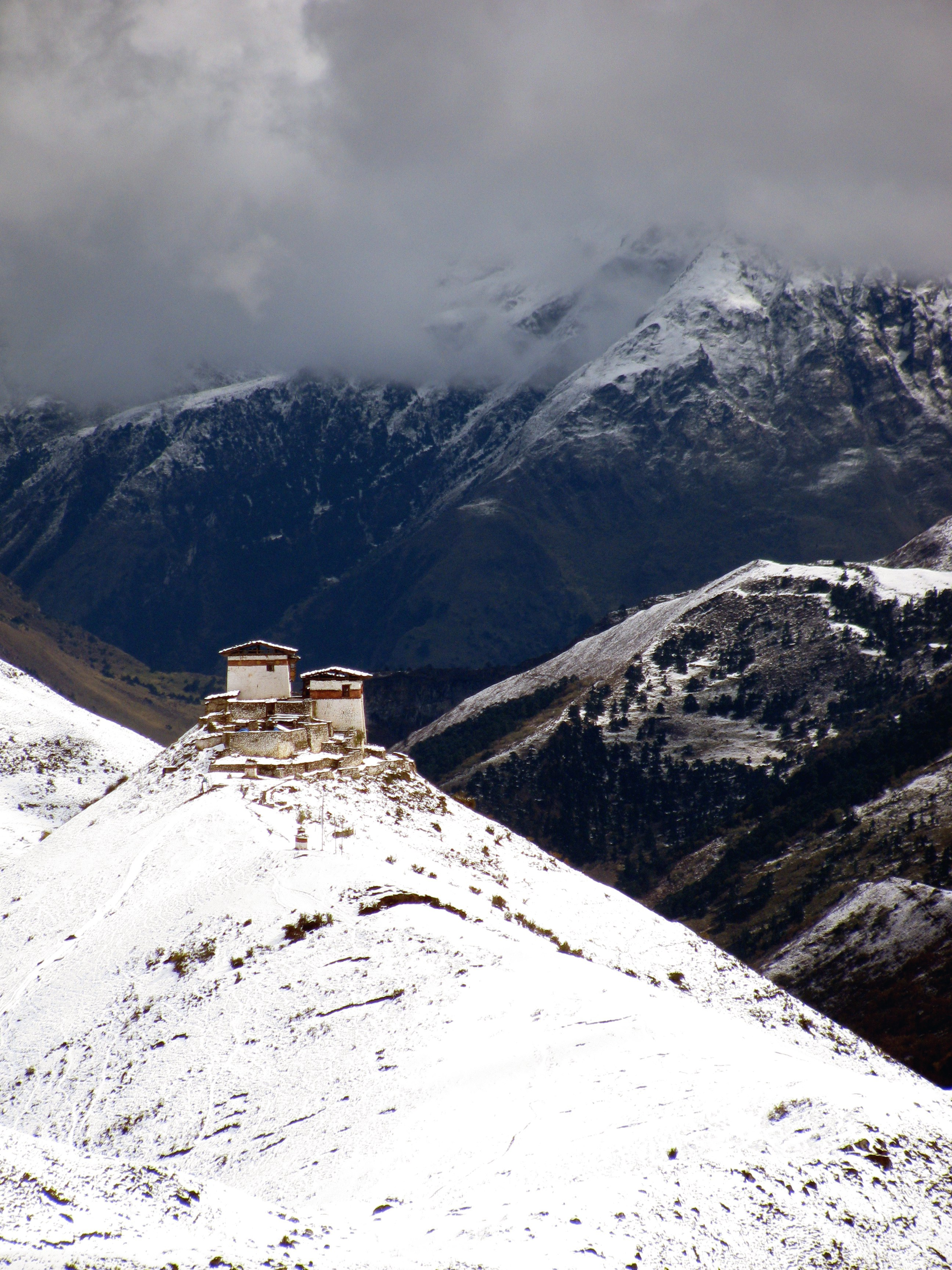 Lingzhi Yügyal Dzong, Bhutan